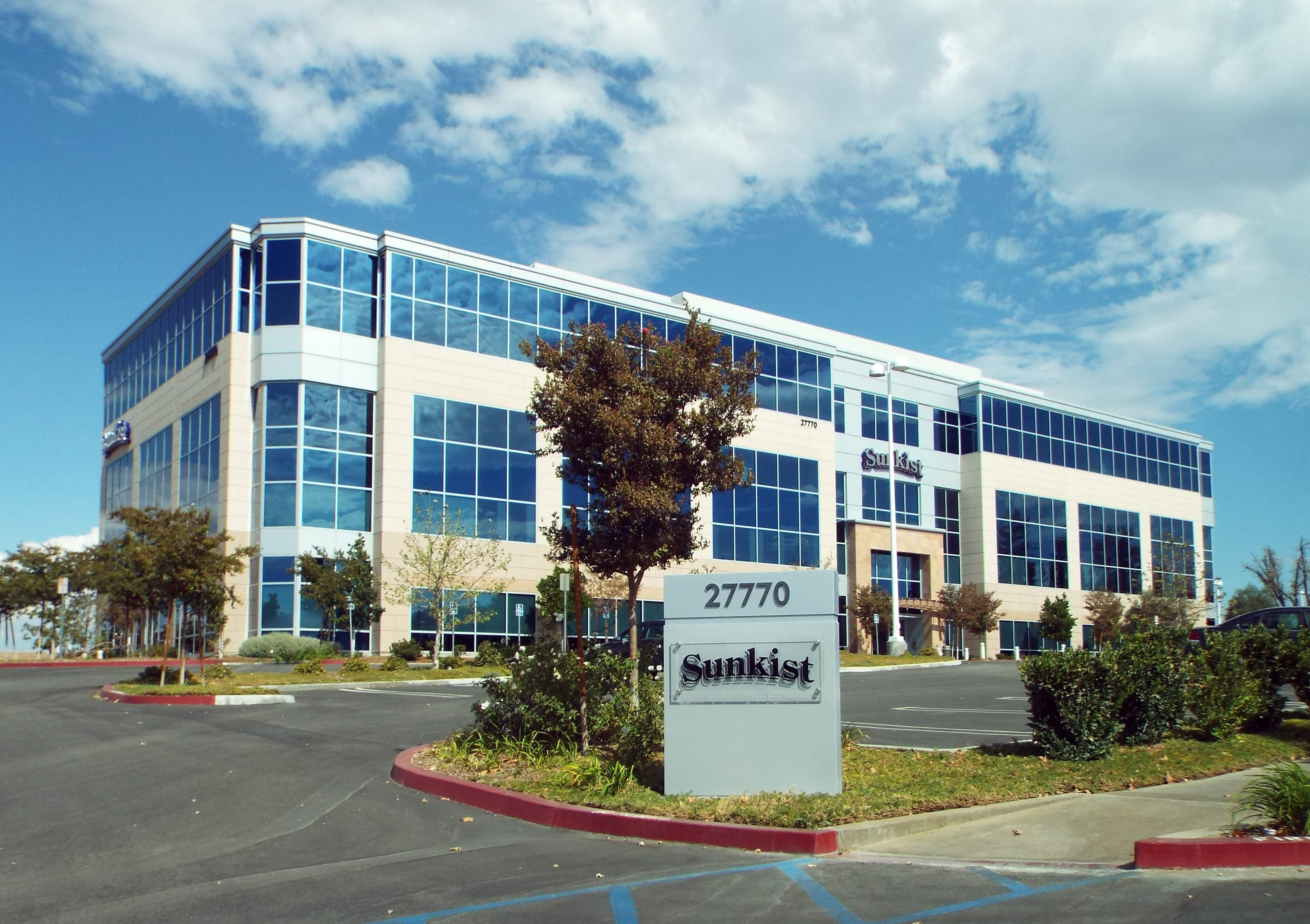 Sunkist headquarters in the Valencia neighborhood of Santa Clarita, California. Photographed by user Coolcaesar on 7 September 2014.